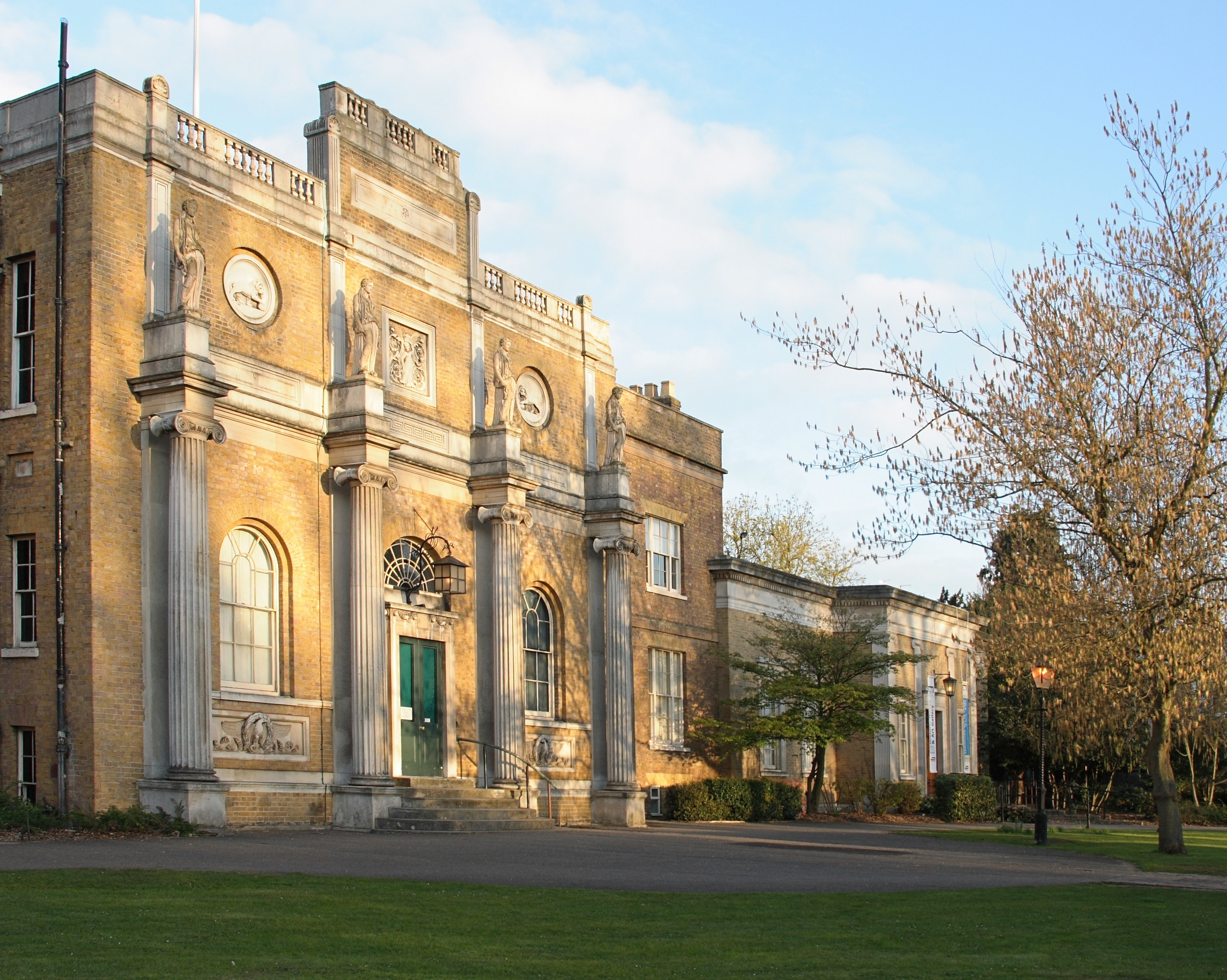 Pitzhanger Manor, Walpole Park, Ealing, London W5, UK. looking north west, at east face of house.